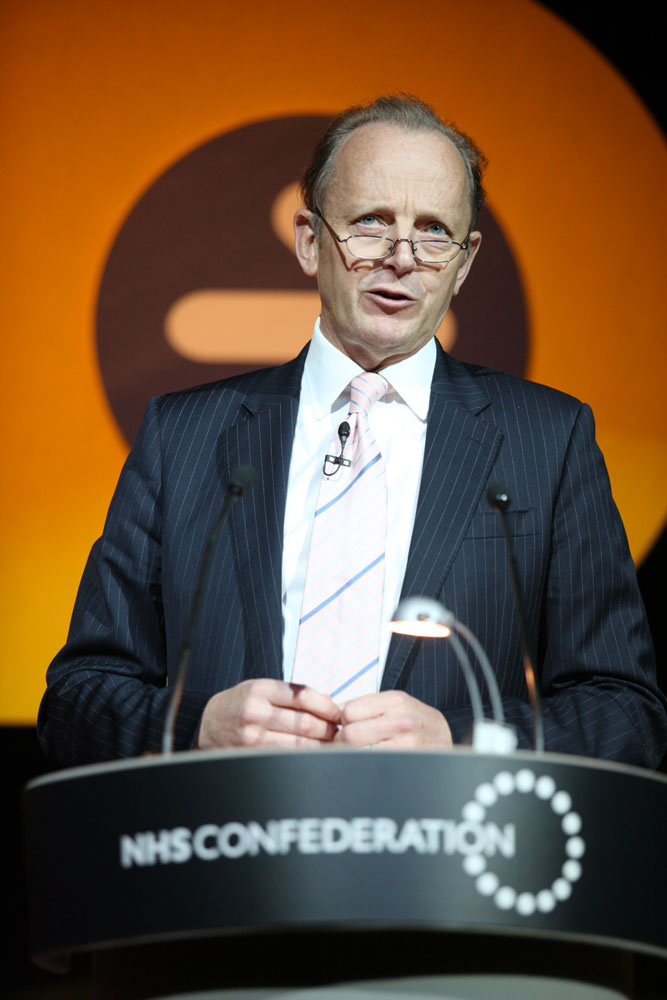 Sir Hugh Orde, president of the Association of Chief Police Officers (in the United Kingdom), and formerly chief constable of the Police Service of Northern Ireland.